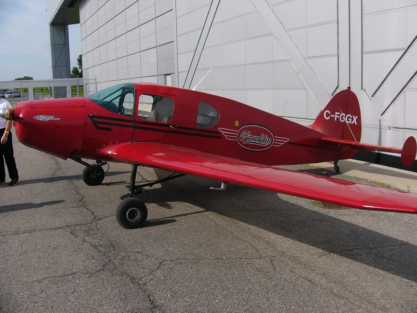 Bellanca 14-13-2 Cruiseair